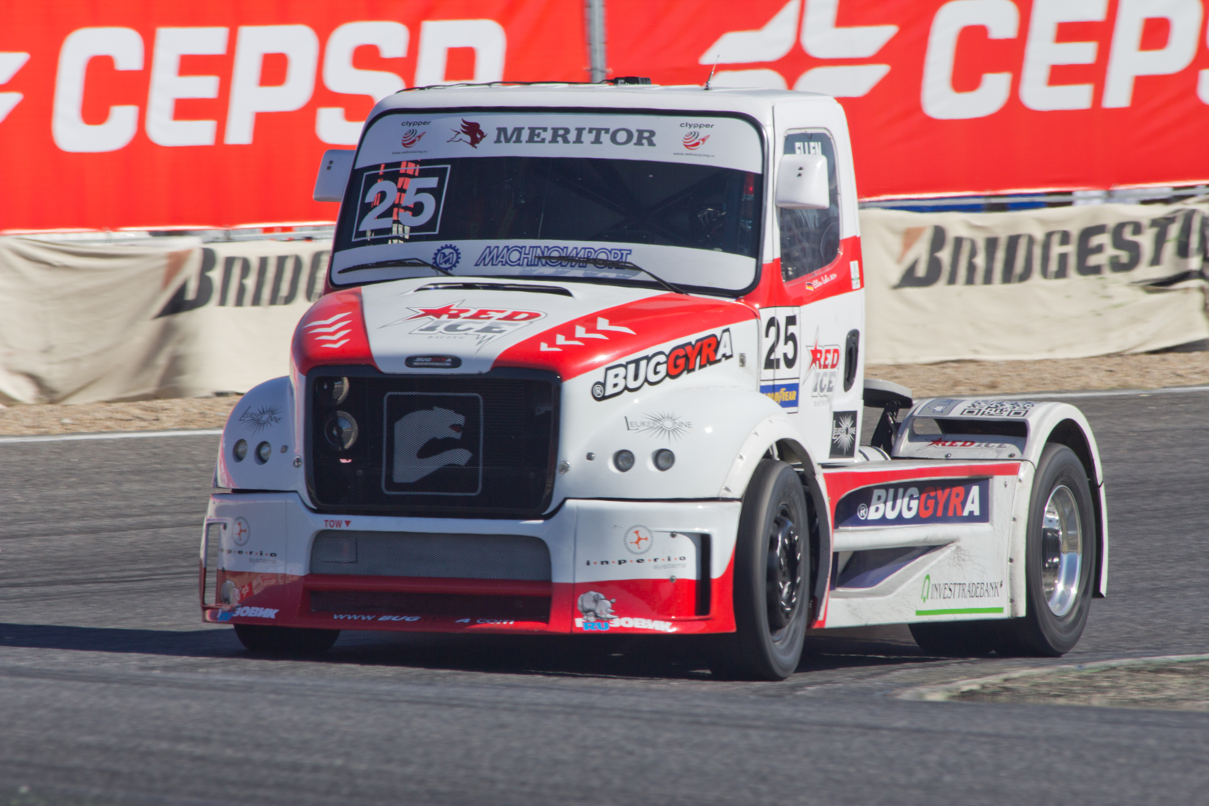 Truck pilot Ellen Lohr at the Spain Truck GP 2013.